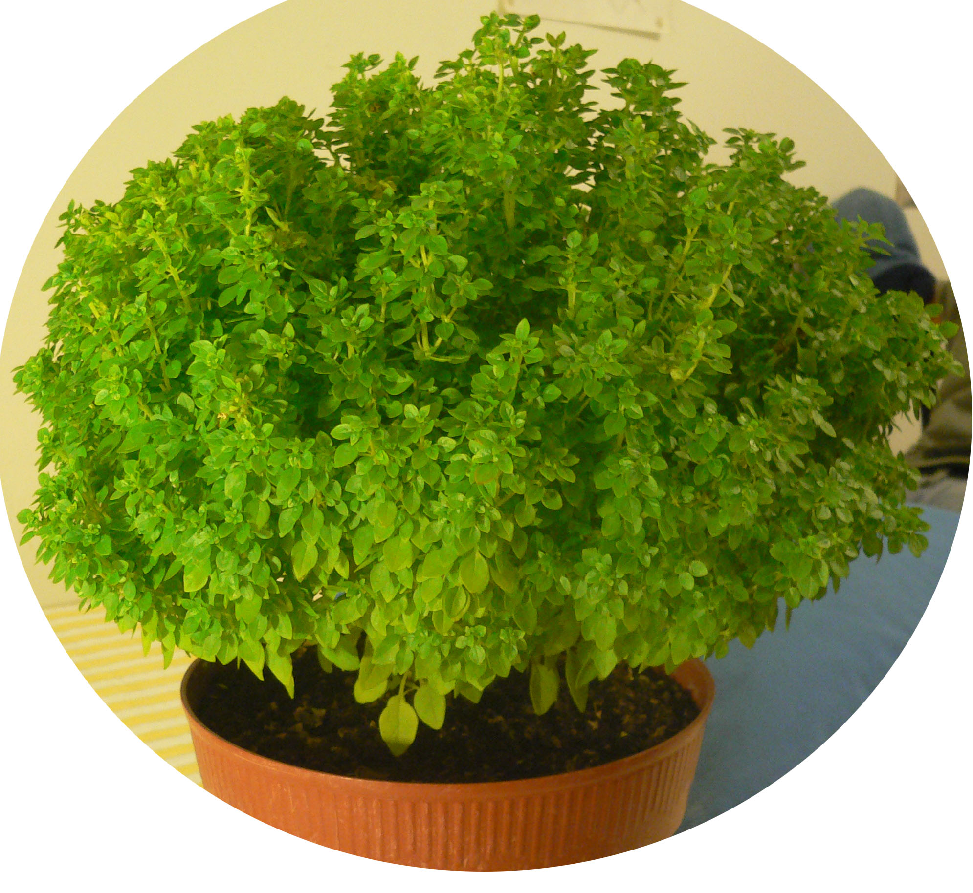 Photograph of a medium sized potted Bush Basil Ocimum minimum L.